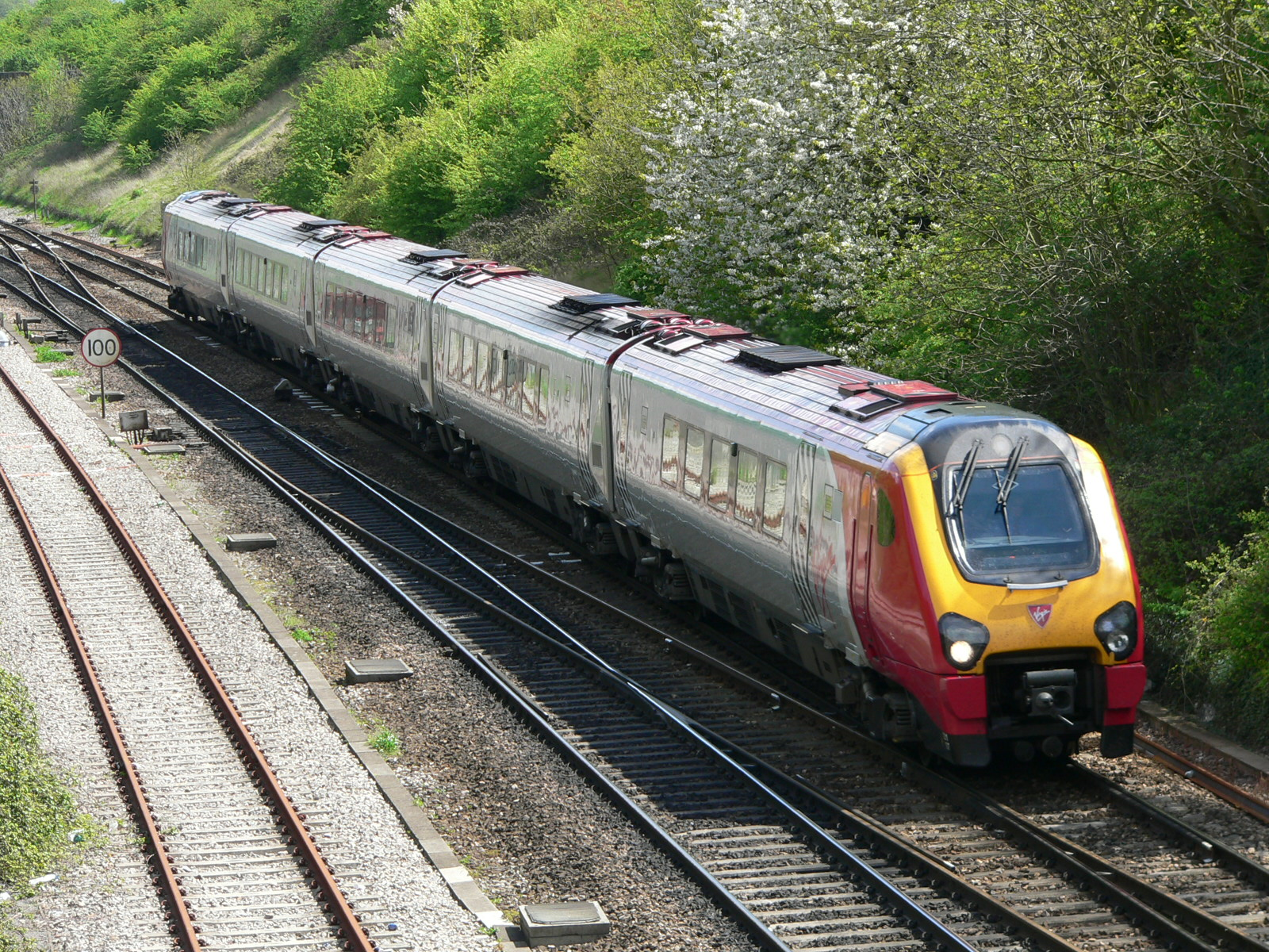 A Class 221 Virgin Voyager approaches Bristol Parkway from the east with a southbound cross-country service. Photographed from the apparently unnamed bridge leading from Hambrook Lane about a third of a mile east of the station.